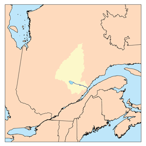 This is a map of the Saguenay River watershed. Lac Saint-Jean is also shown. I, Karl Musser, created it based on USGS and Digital Chart of the World data.